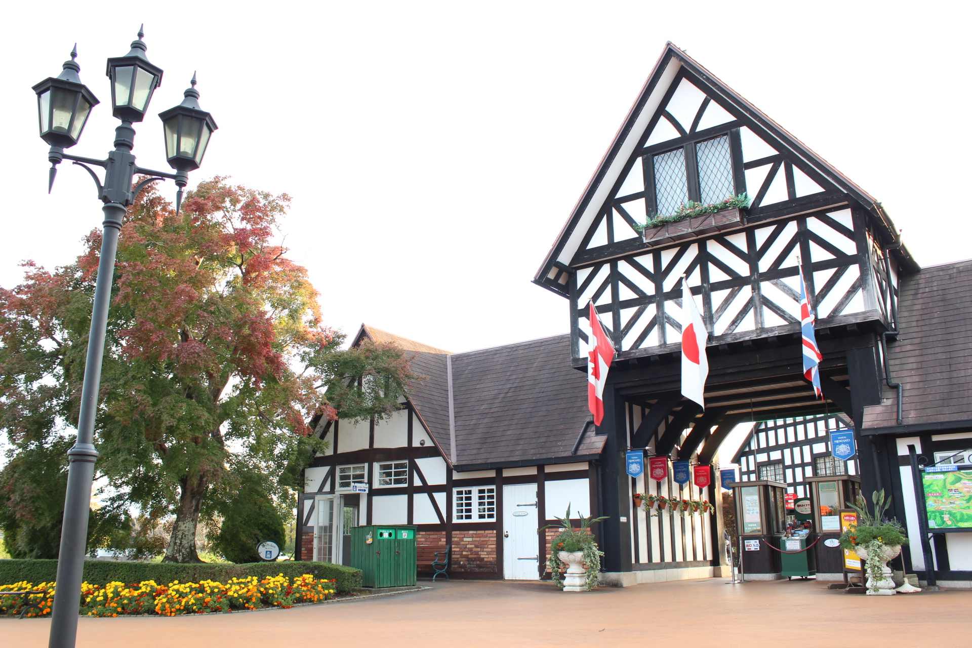 Entrance of Shuzenji Nijinosato in Izu, Shizuoka Prefecture.